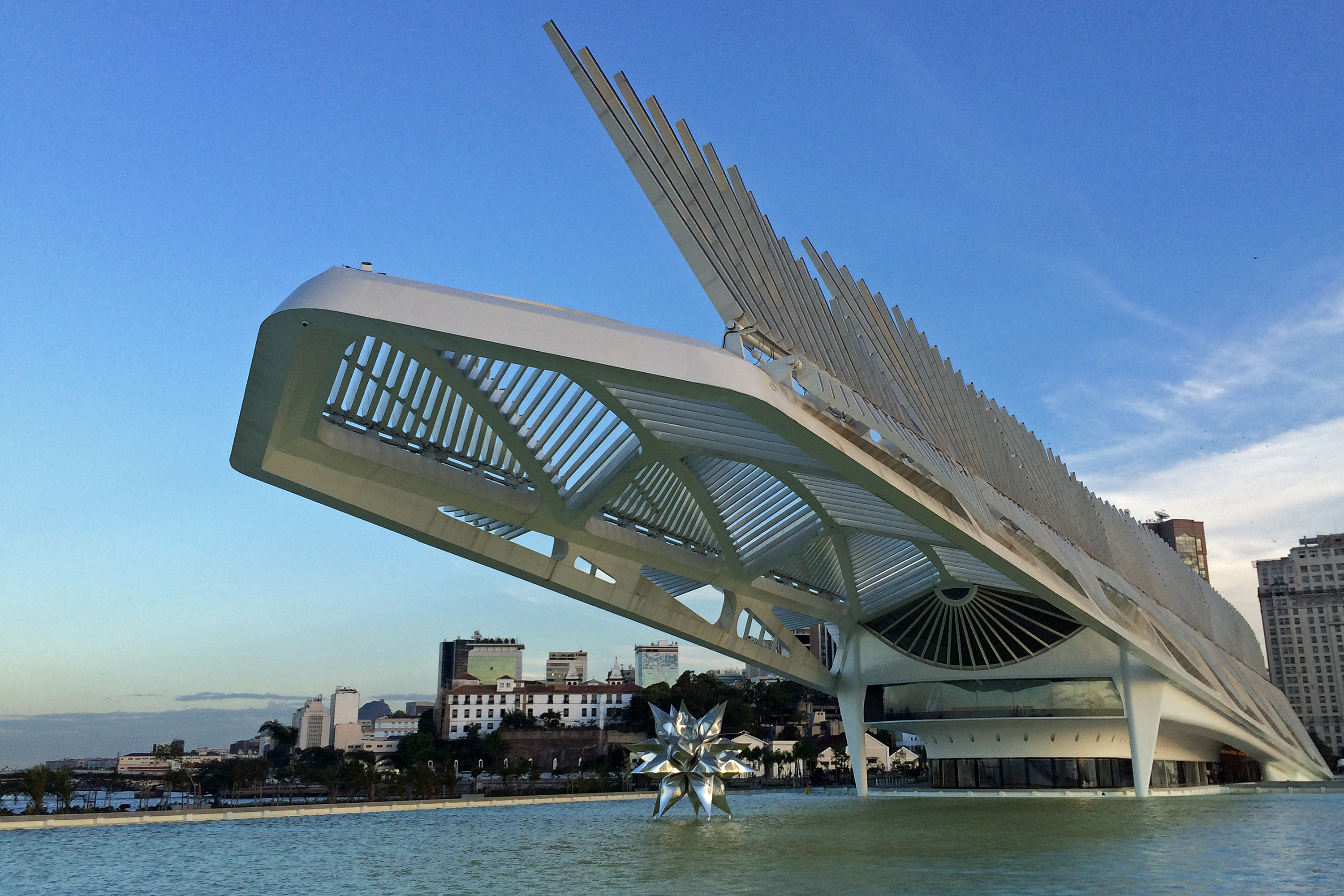 Museu do Amanhã viewed from the Guanabara Bay side, , Porto Maravilha, Rio de Janeiro. Shown the solar panels installed in the upper structure. These elements move during the day like wings following the sun path. There are almost 5,500 solar panels in the entire building